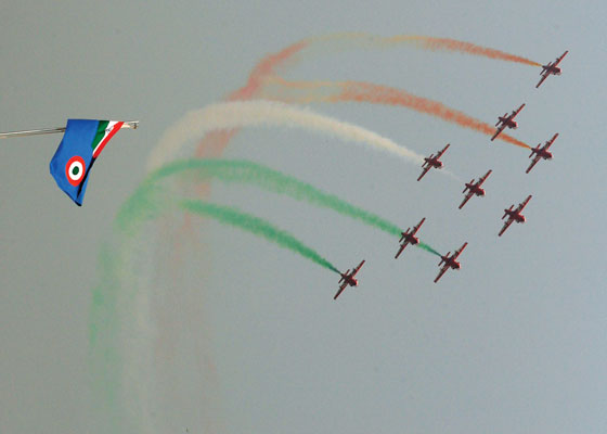 The nine-aircraft Suryakiran aerobatic team in Kiran jet trainers.